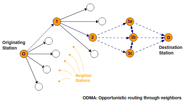 Depiction of ODMA-based Routing